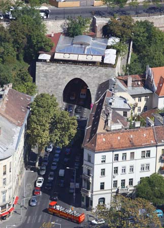 Tunnel, Hungary, Buda castle, Aerial photography